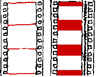 Frame lines shown in red on a "full-frame" negative, and on a "hard-matted" 1.85:1 projection print, both on 35 mm film. I, User:Janke the creator of this drawing, place it in PD .